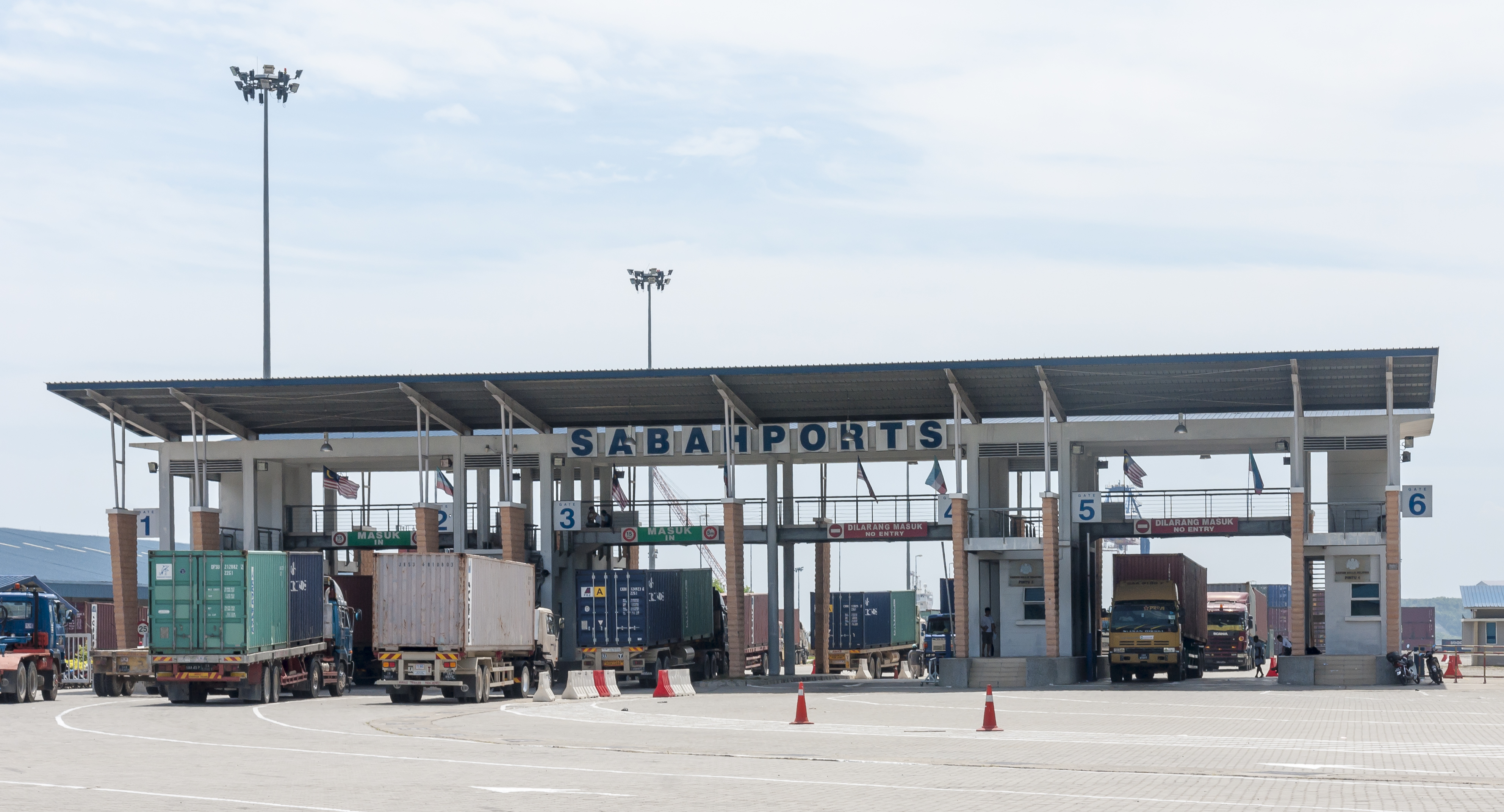 Sabah: Sepangar Bay, Sabah Ports